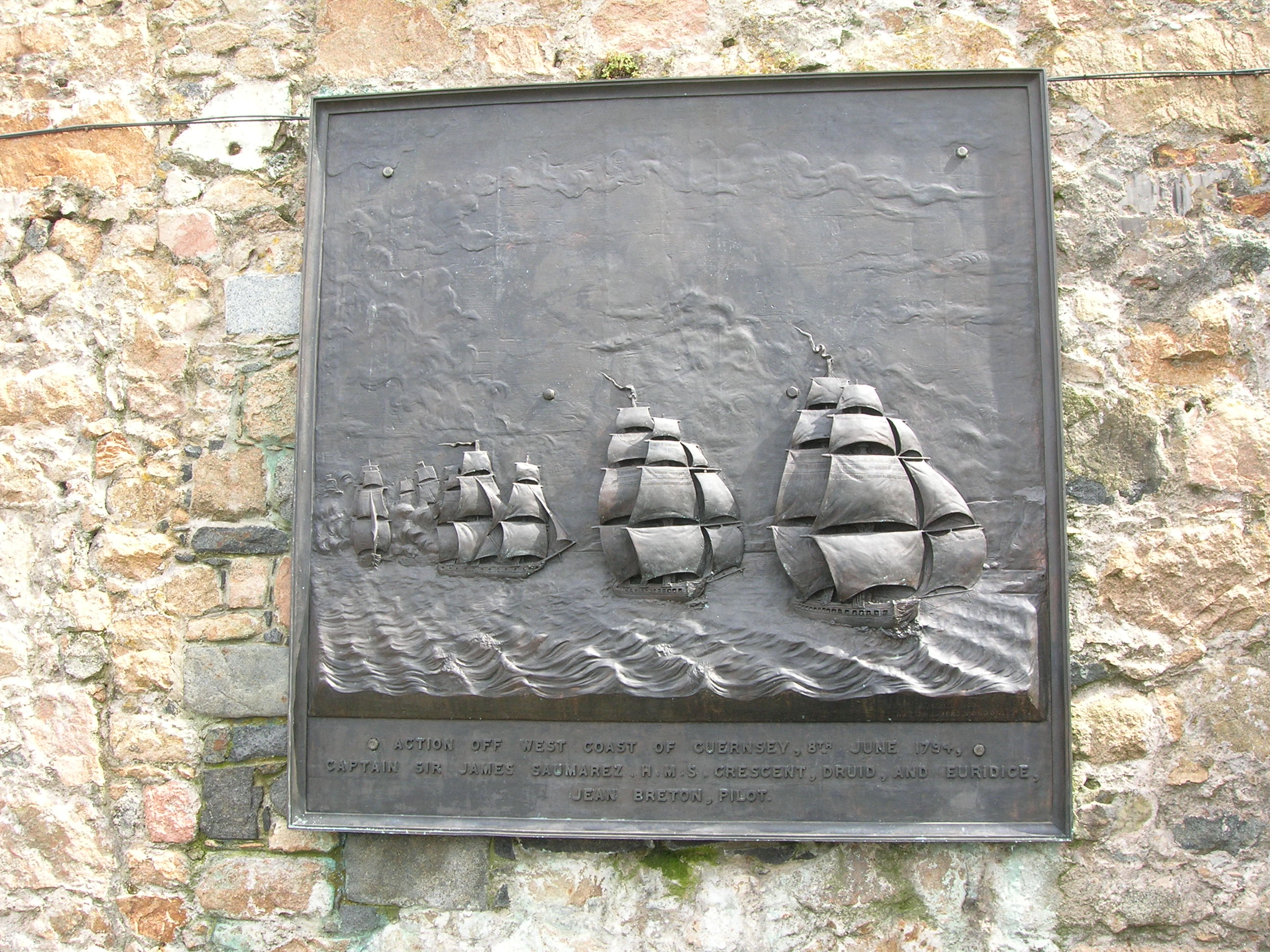 Photo of one of four plaques at Saint Peter Port honouring Admiral Sir James Saumarez